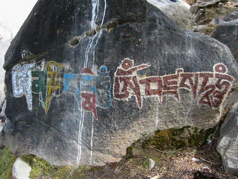 "Om Mani Padme Hum" (on the left in different colors) and "Om Vajrasattva Hum" (on the right all in red), written in Tibetan on a rock at the Potala Palace.